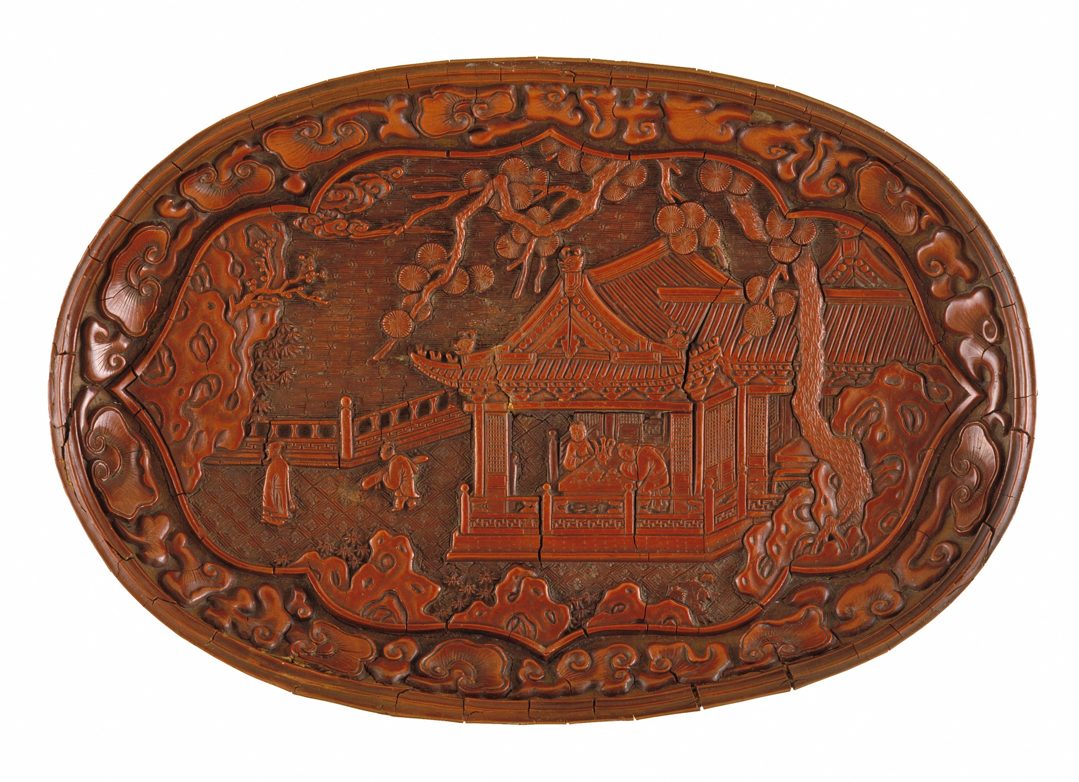 China, Yuan dynasty, 1279-1368 Furnishings; Serviceware Carved red lacquer on wood Gift of Mr. and Mrs. John H. Nessley (M.81.125.1) Chinese Art